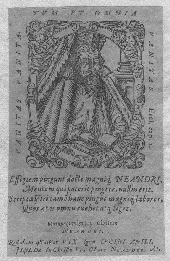 Portrait of Michael Neander, engraving 85x70 mm, in: Michael Neander: Theologia Christiana. 1595